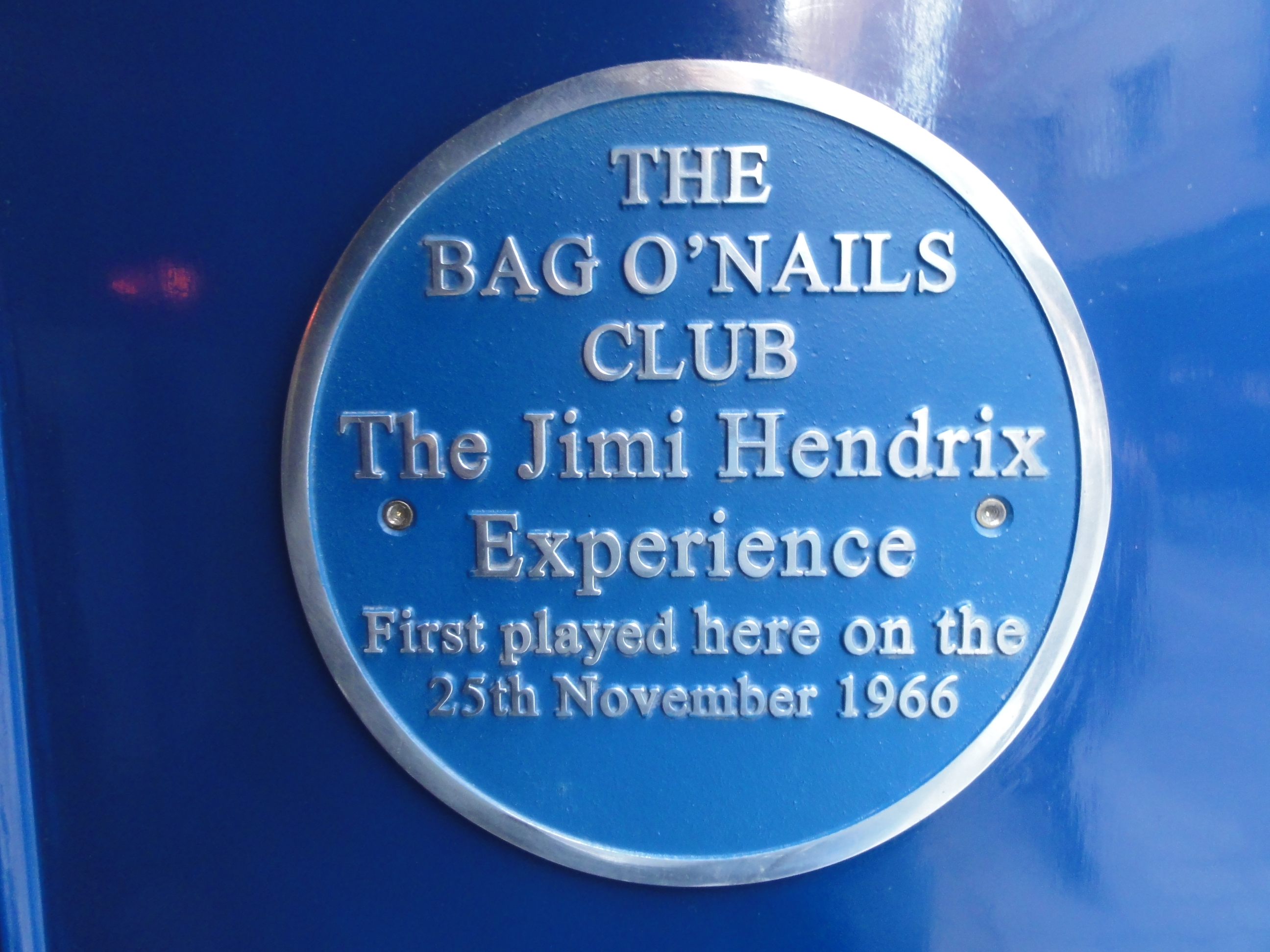 Picture of plaque